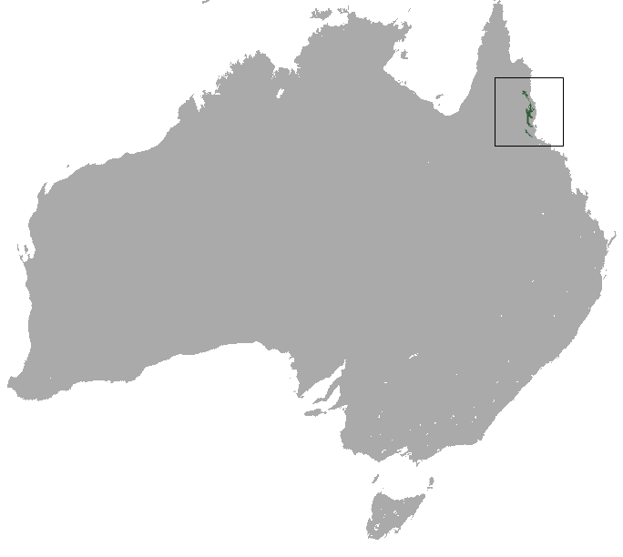 Green Ringtail Possum (Pseudochirops archeri) range